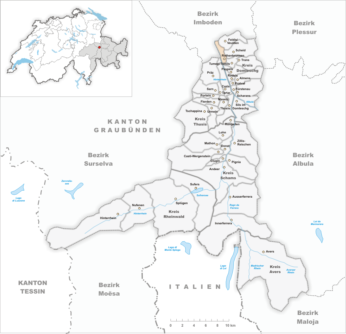 Municipality Rothenbrunnen